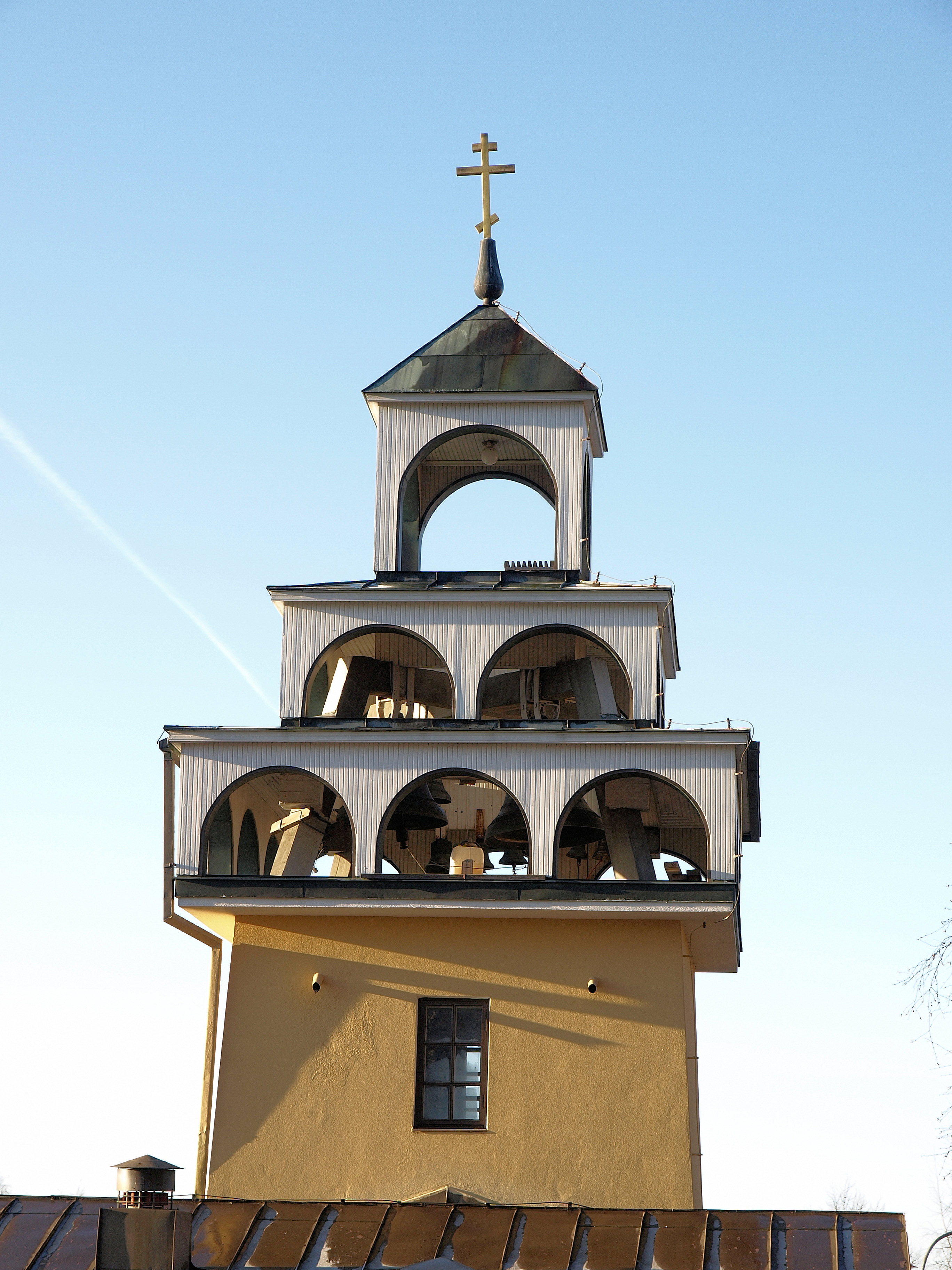 Belfry of the Church of the Resurrection of Christ (Jyväskylä Orthodox Church), Jyväskylä, Finland